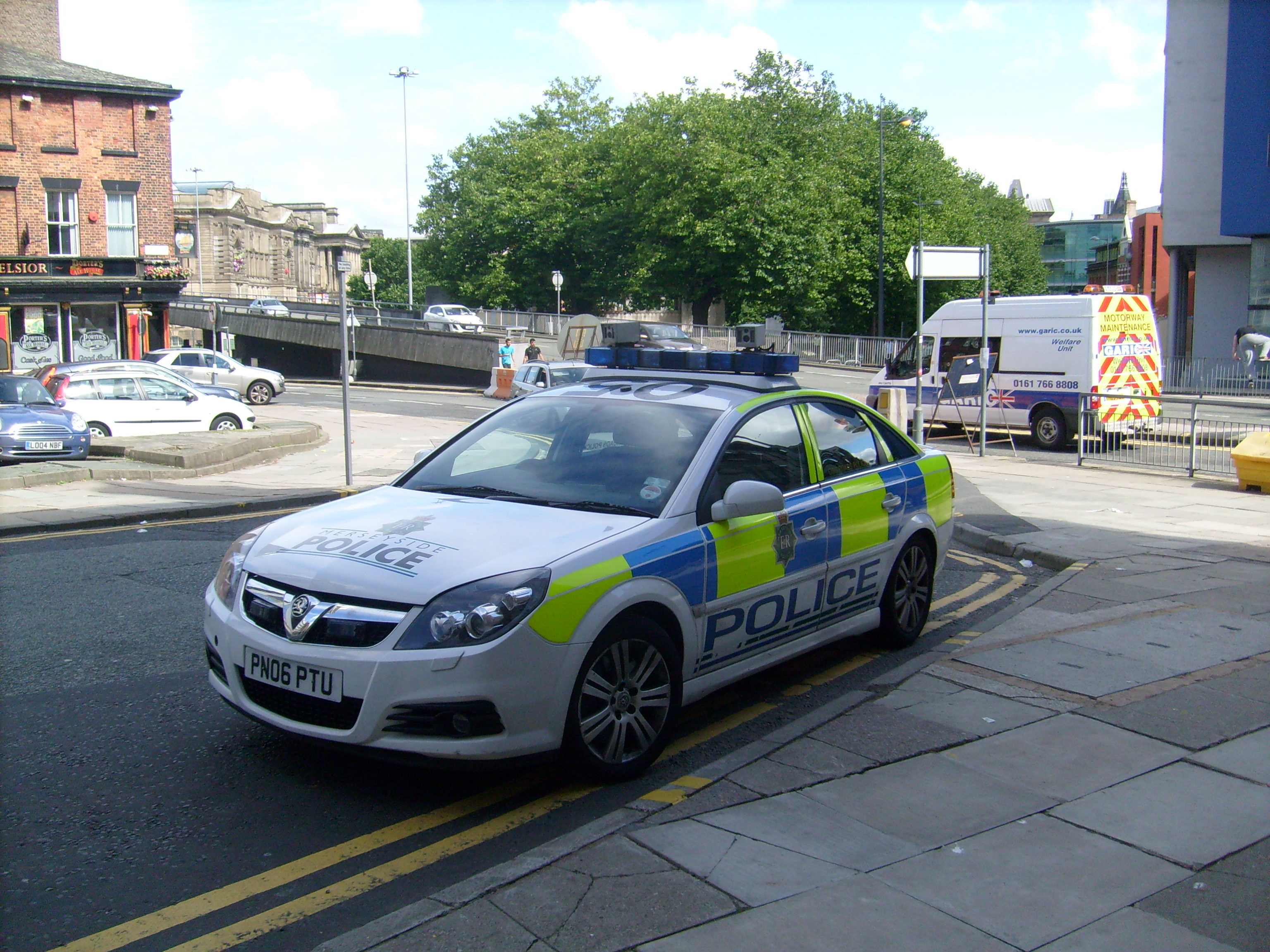 Merseyside Police ANPR Car parked on double yellow lines outside Liverpool Magistrates court.